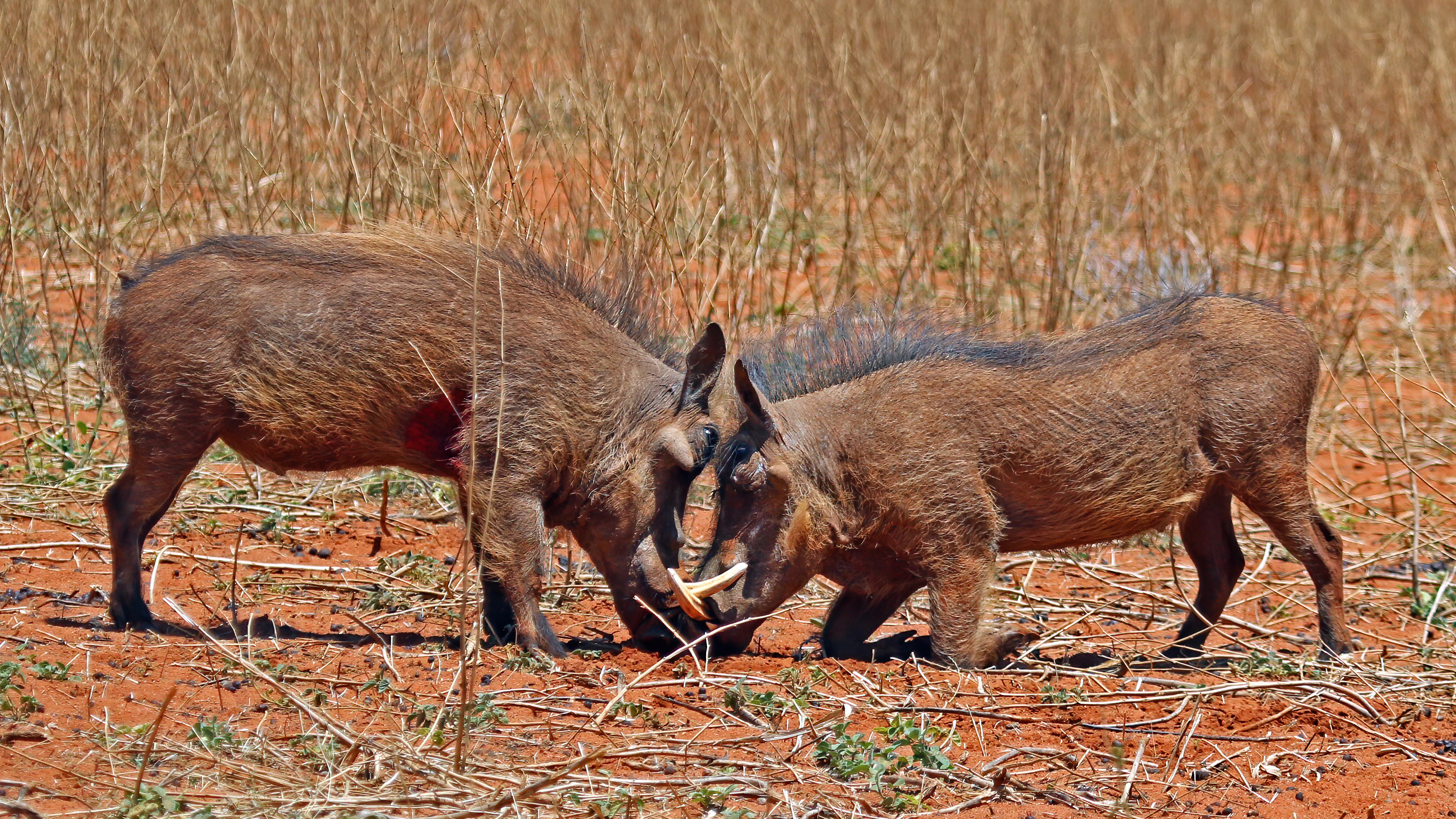 Warthogs (Phacochoerus africanus) males, Tswalu Kalahari Reserve, South Africa